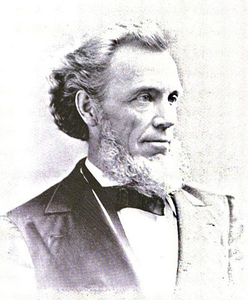 Photograph of James Marvin, the third Chancellor of the University of Kansas. From Google Books archive: Title Quarter-centennial history of the University of Kansas, 1866-1891 Authors Wilson Sterling, James Burrill Angell, Carrie M. Watson, Arthur Graves Canfield, D. H. Robinson Editor Wilson Sterling Publisher G.W. Crane & co., 1891 Original from the University of Michigan Digitized Jun 26, 2007 Length 198 pages